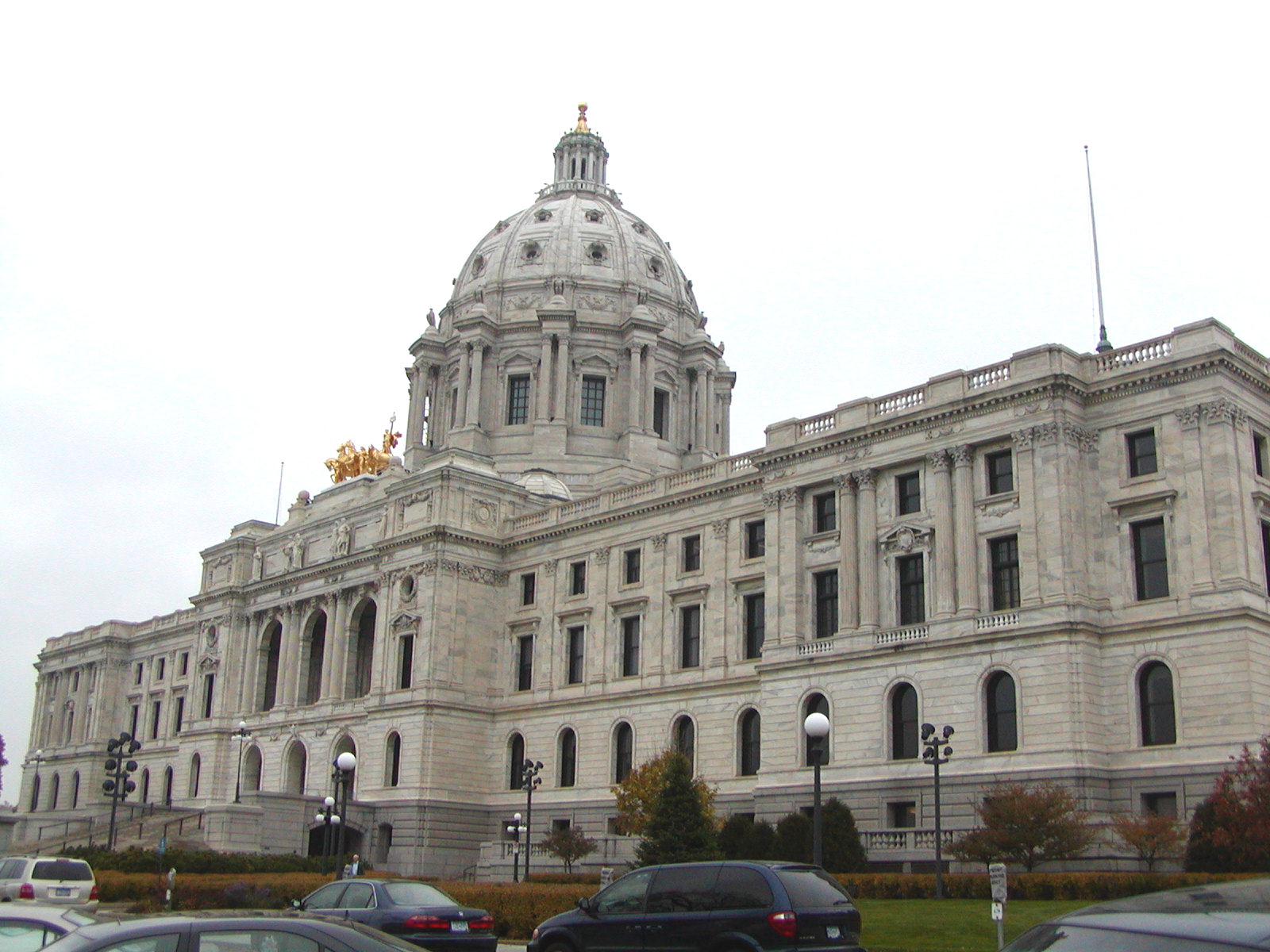 Minnesota State Capitol